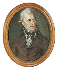 Gideon Sponholz (1745-1807) was an German art collector and one of the spiritual fathers of the Prillwitz idols.